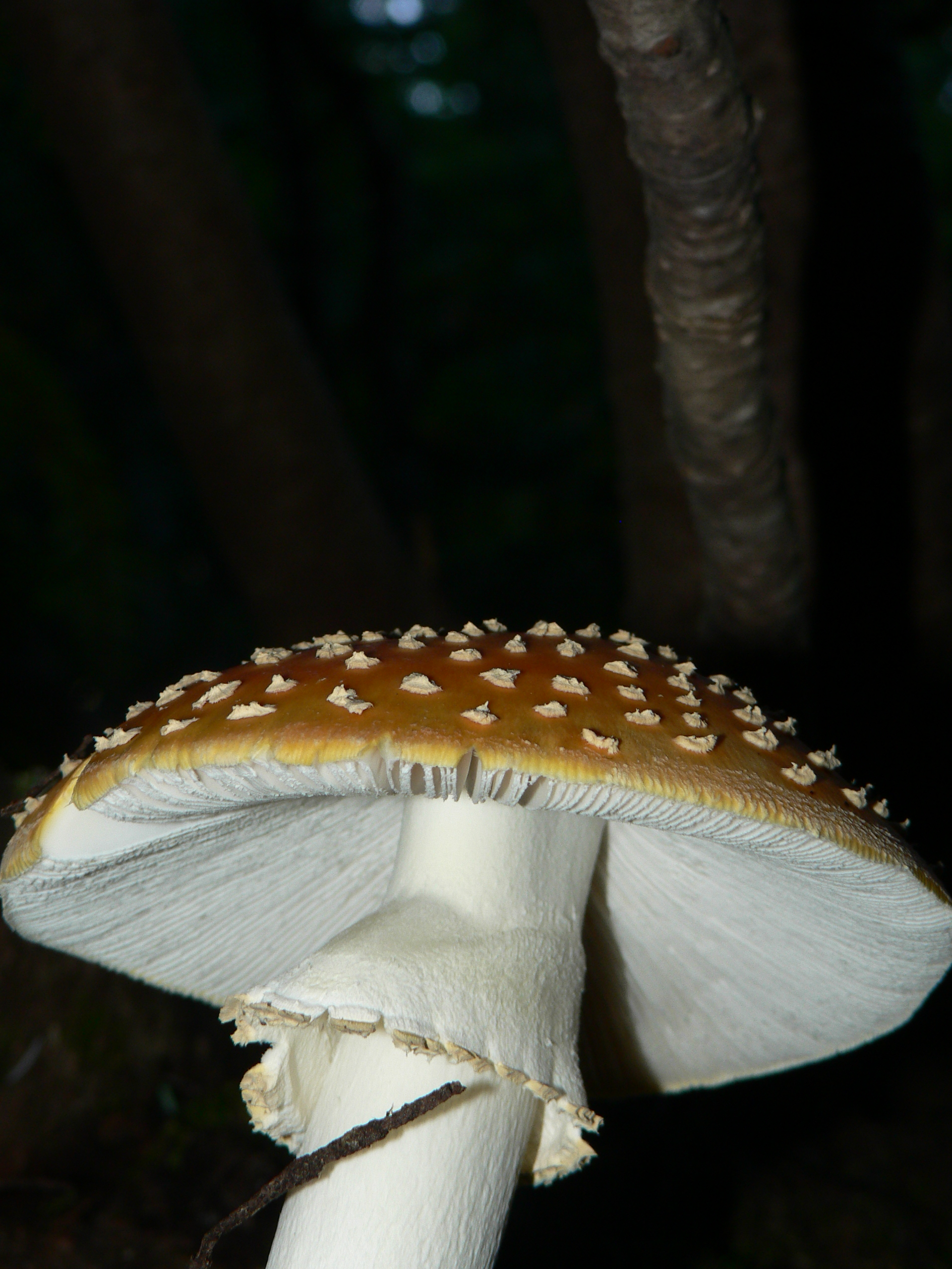 Fly Amanita